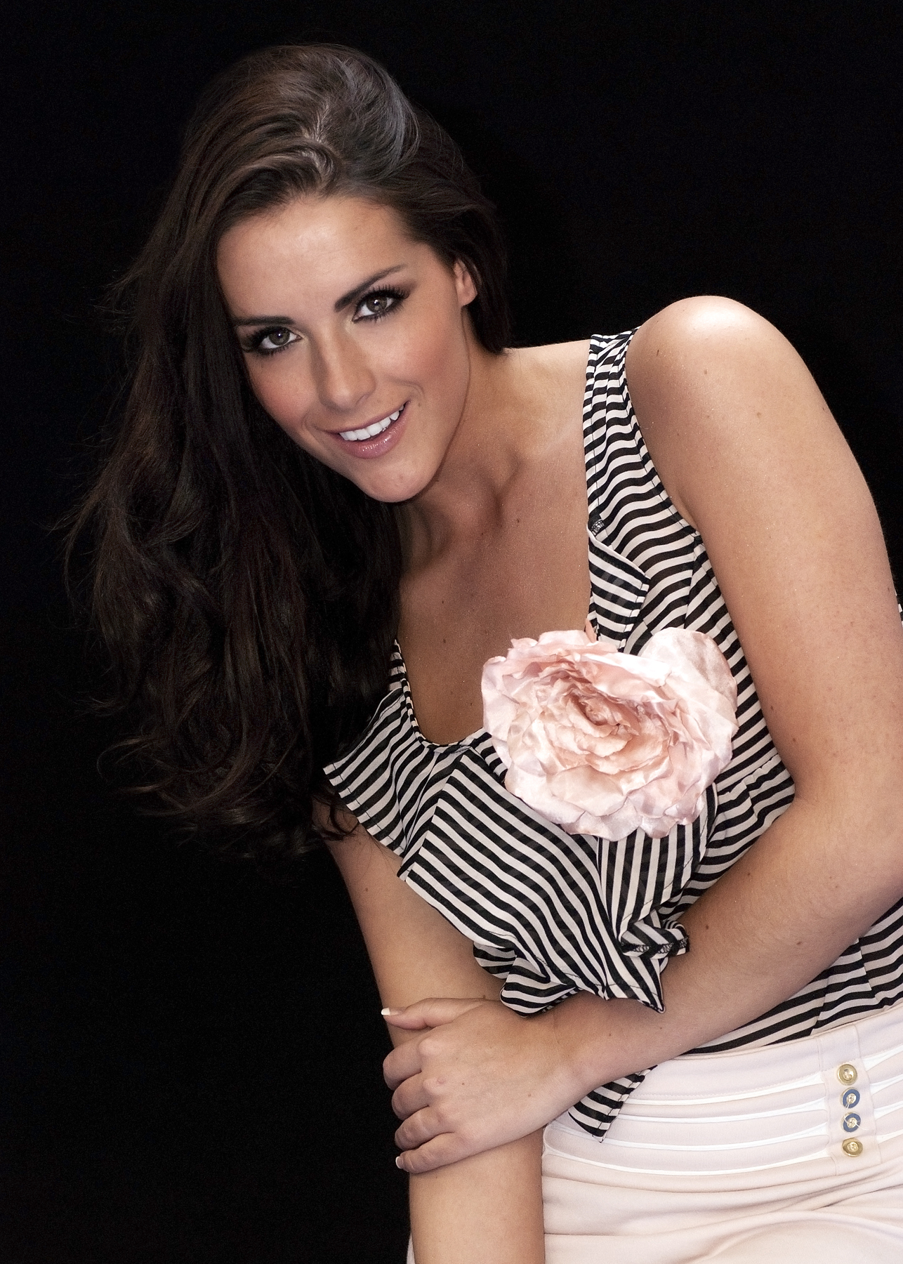 Portrait of English model Katie Green taken during the "Focus on Imaging 2010" annual imaging show.